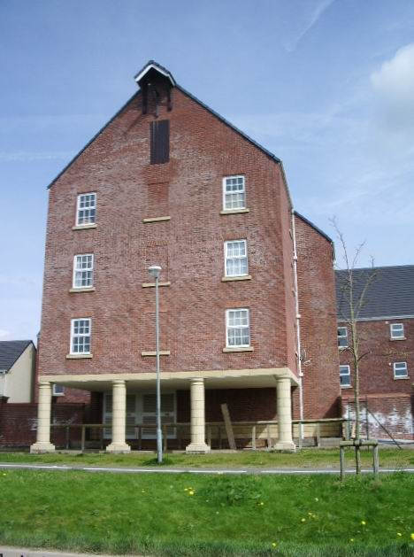 New housing in Buckshaw Village It is housing even though it looks like a warehouse